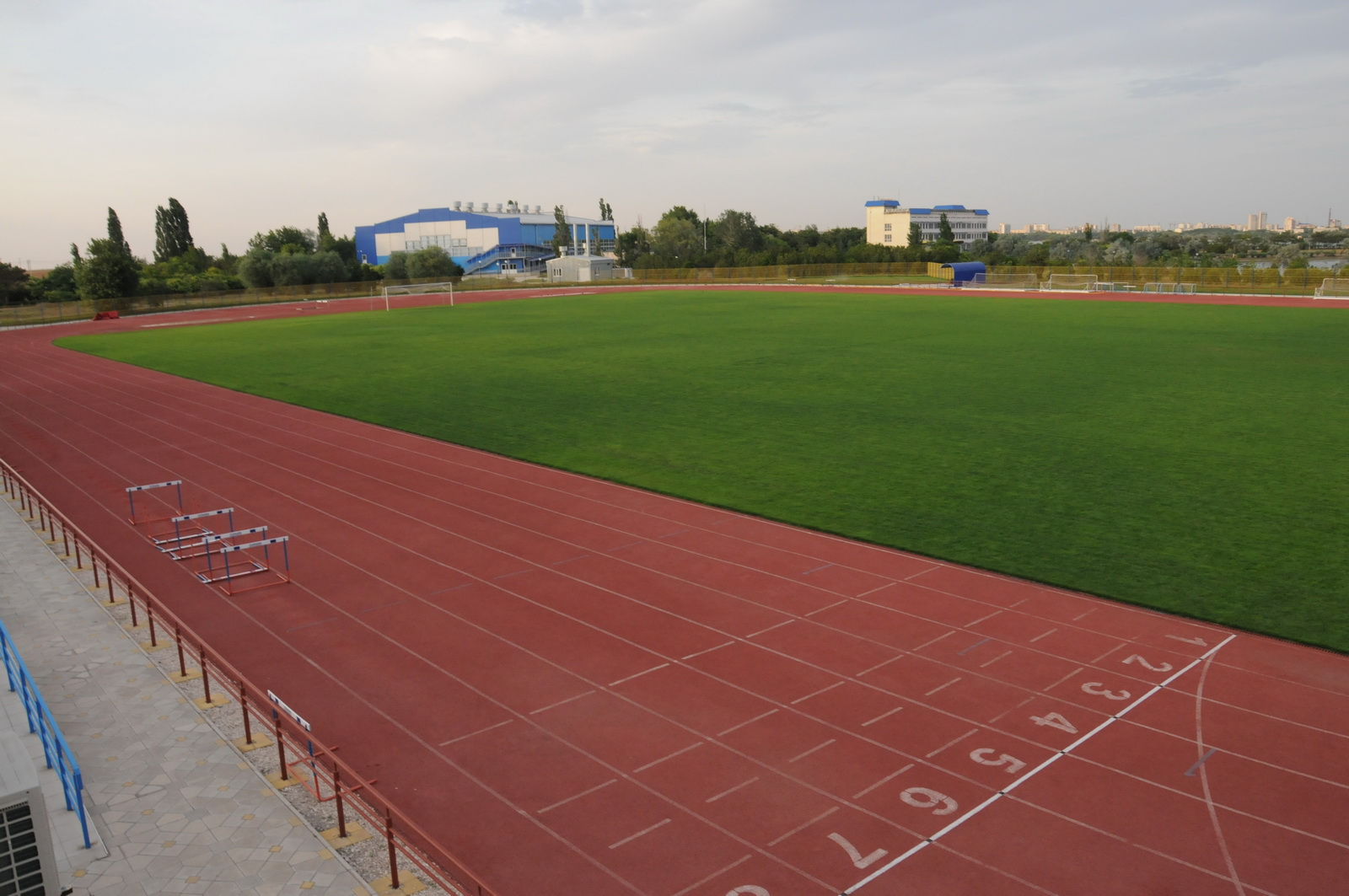 NC Ukraina Stadium in Zaozerne, Eupatoria municipality, Crimea, Ukraine